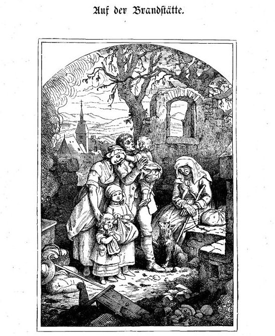 illustration of Friedrich Schiller's "Song of the Bell" (German: "Das Lied von der Glocke")